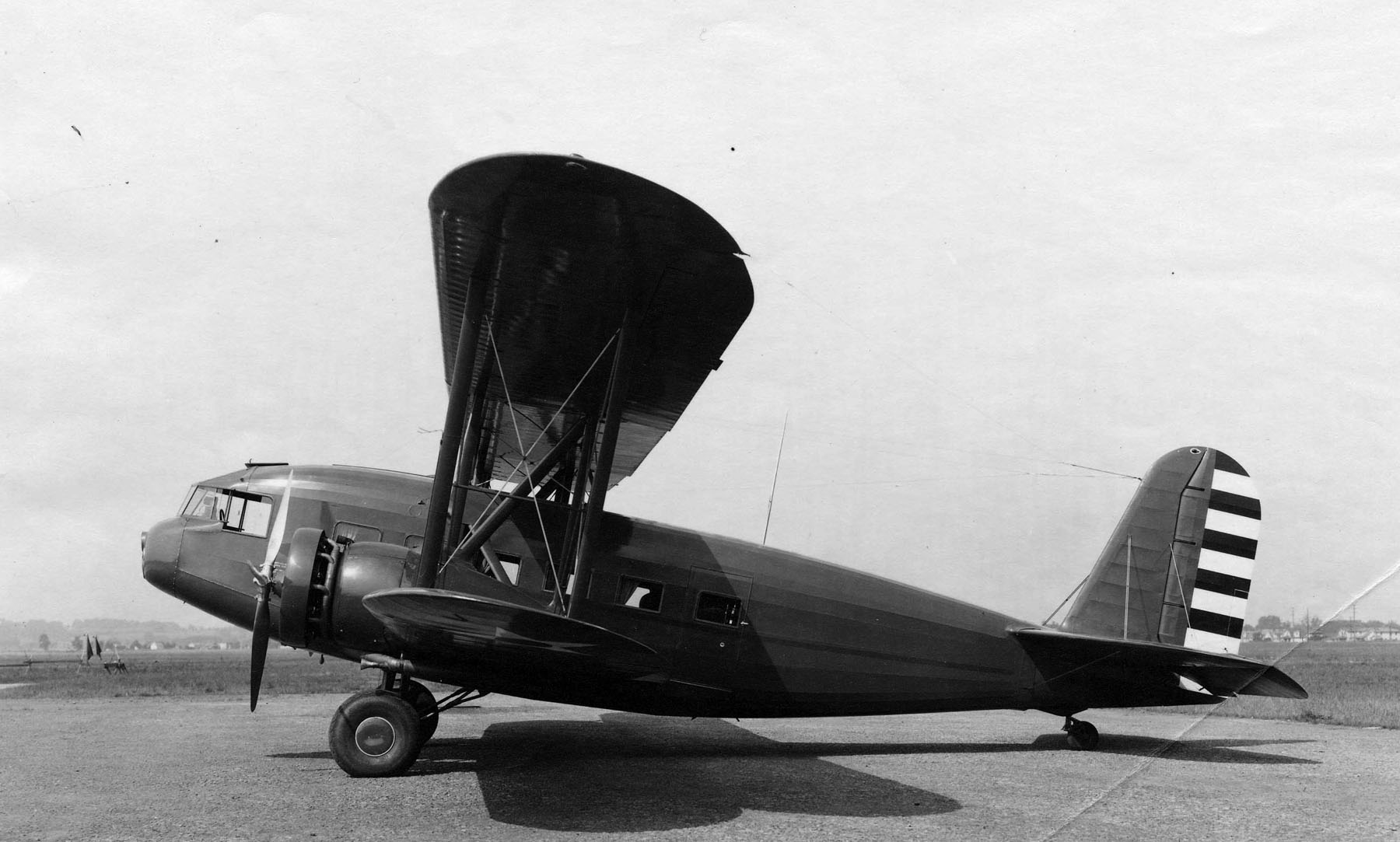 In the spring of 1933, the U.S. Army Air Corps tested the prototype Curtiss T-32 Condor II twin engine biplane transport. During the early 1930s, the Army General Staff still believed that a large biplane was more reliable than a monoplane aircraft, so two T-32 transports were purchased with the designation YC-30. The plane featured a retractable landing gear operated by electric motors making it among the first transports with retractable landing gear. The YC-30 also had many access panels designed for easy and speedy ground maintenance tasks. The basic structure of the YC-30 was a steel and aluminum alloy framework and fabric covering. The first YC-30 (S/N 33-320) was received by the Air Corps on 12 May 1933. Both planes were initially used as VIP transports and then as regular staff transports until withdrawn from service in 1938. (USAF text)